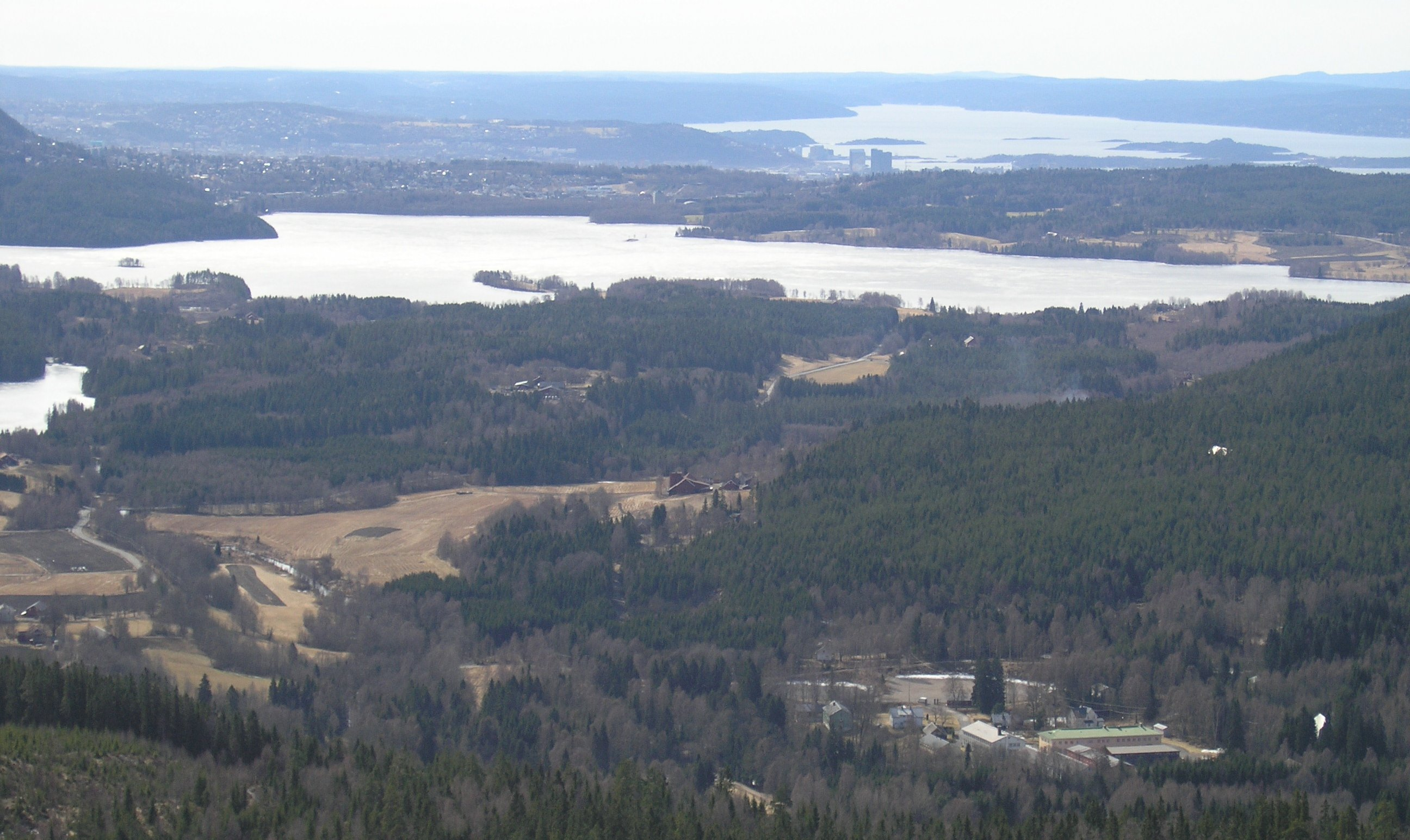 View from Gaupekollen: Maridalen, Maridalsvannet, some of Oslo's higher buildings (Oslo Plaza, Postgirobygget) and Bunnefjorden